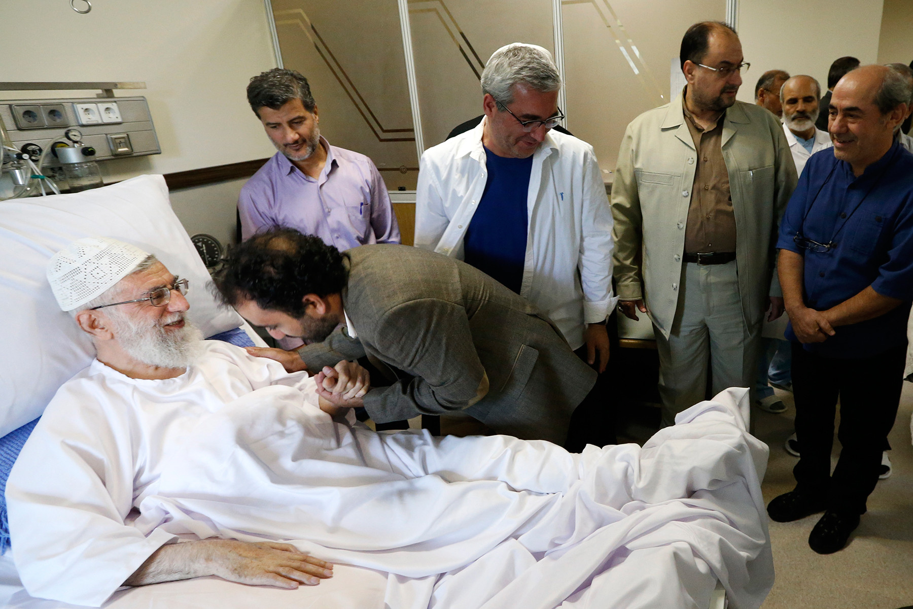 Artists and writers visiting Ali Khamenei in hospital